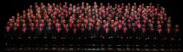 Photo of the Gay Men's Chorus of Washington, DC at their June 2010 concert, Divas!